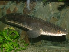 Gozar FIsh